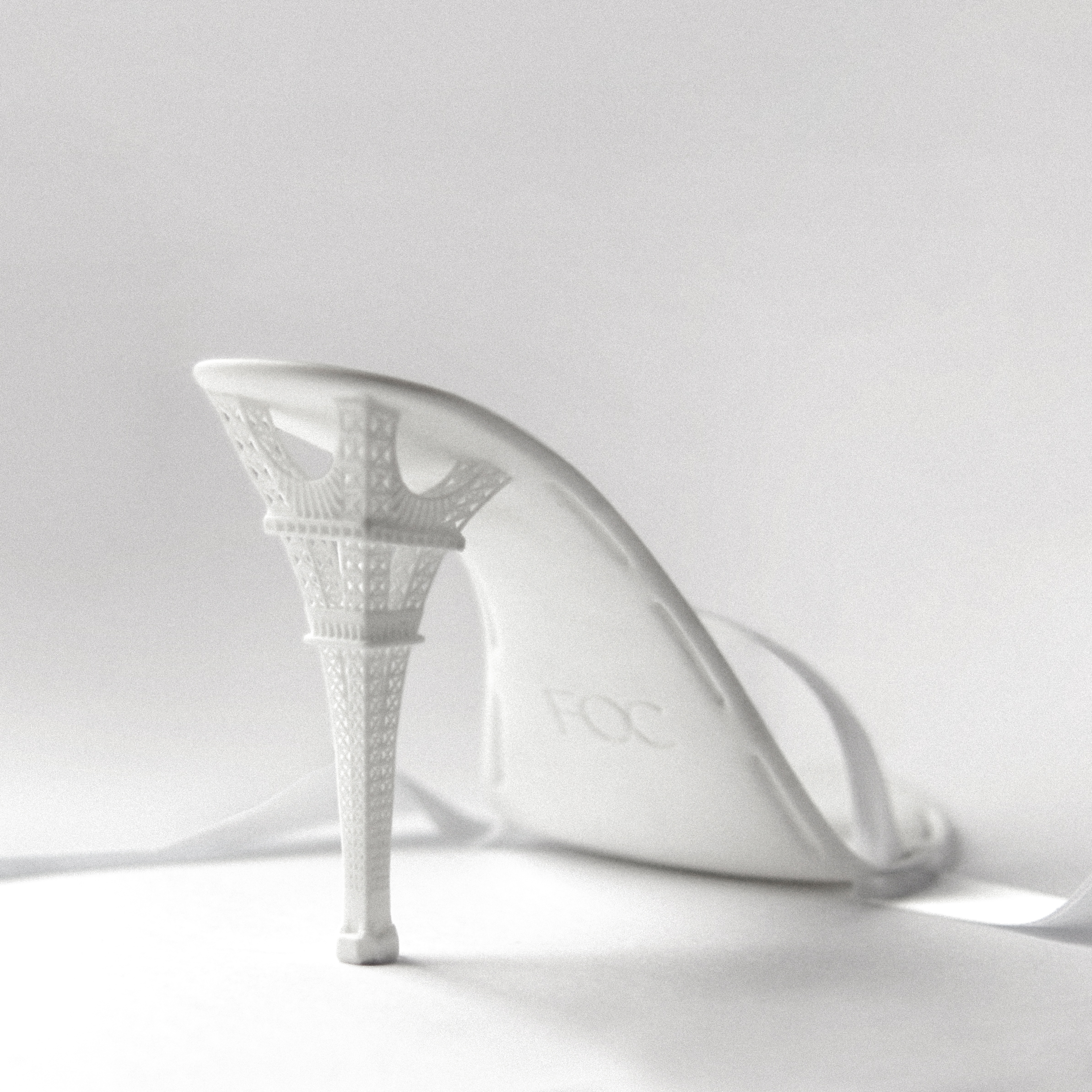 3d printed stilettos for the Dyson showroom exhibition in Paris 2005.